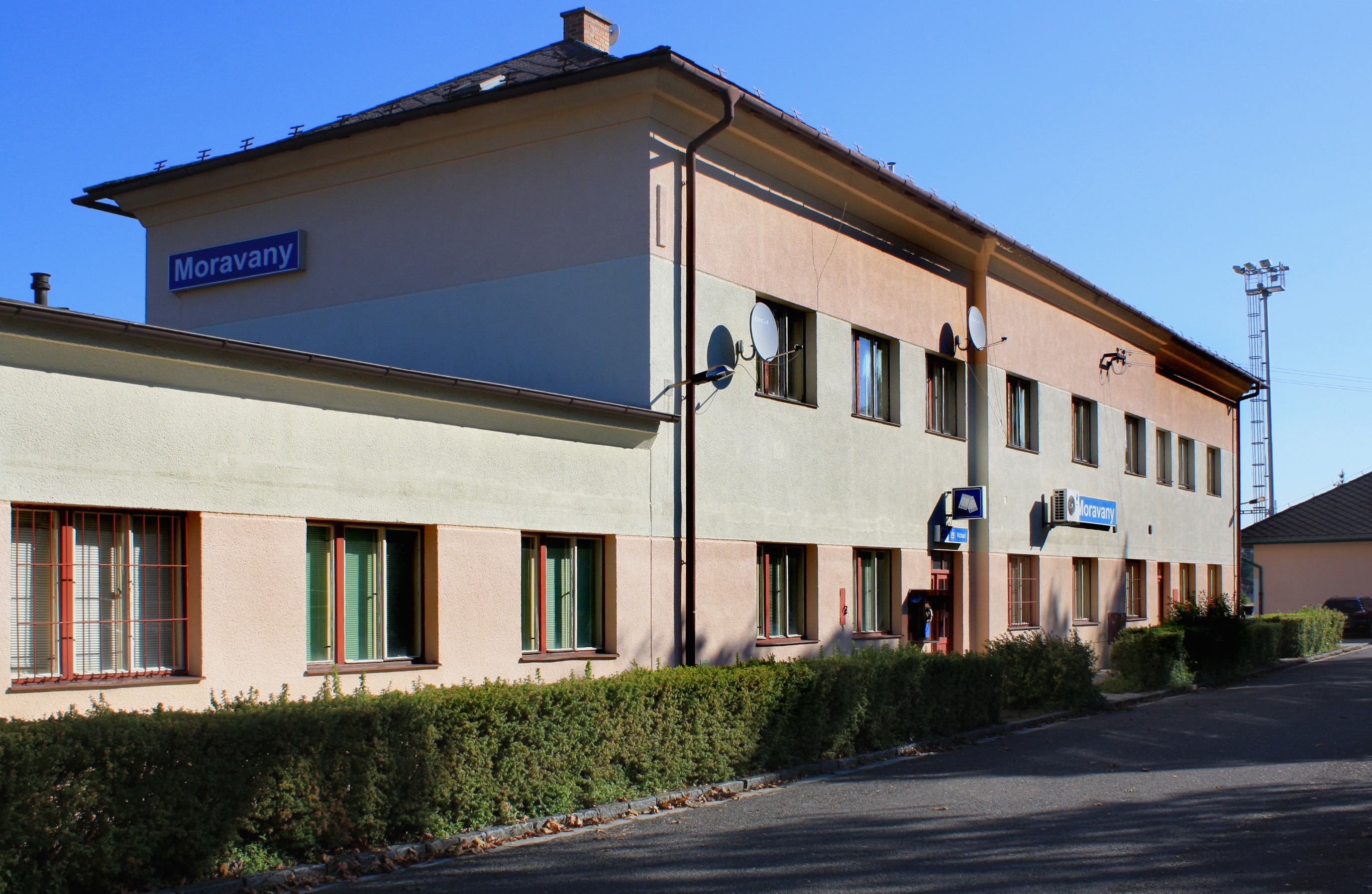 Train station in Moravany, Czech Republic